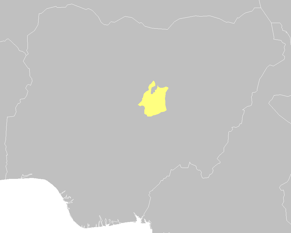 Jos Plateau forest-grassland mosaic ecoregion map